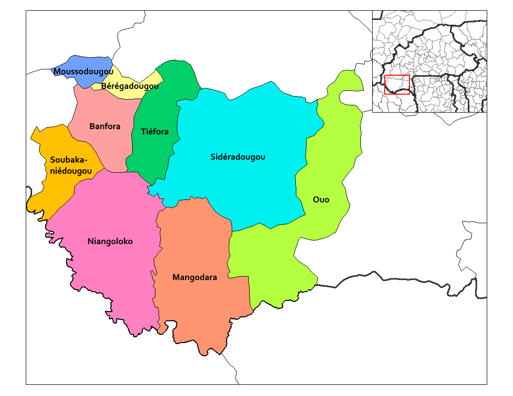 This map has been uploaded by Osiris fancy from to enable the Wikimedia Atlas of the World. Original uploader to was Rarelibra. Osiris fancy is not the creator of this map. Licensing information is below. Map of the departments of Comoe province in Burkina Faso. Created by Rarelibra 03:14, 30 September 2006 (UTC) for public domain use, using MapInfo Professional v8.5 and various mapping resources.